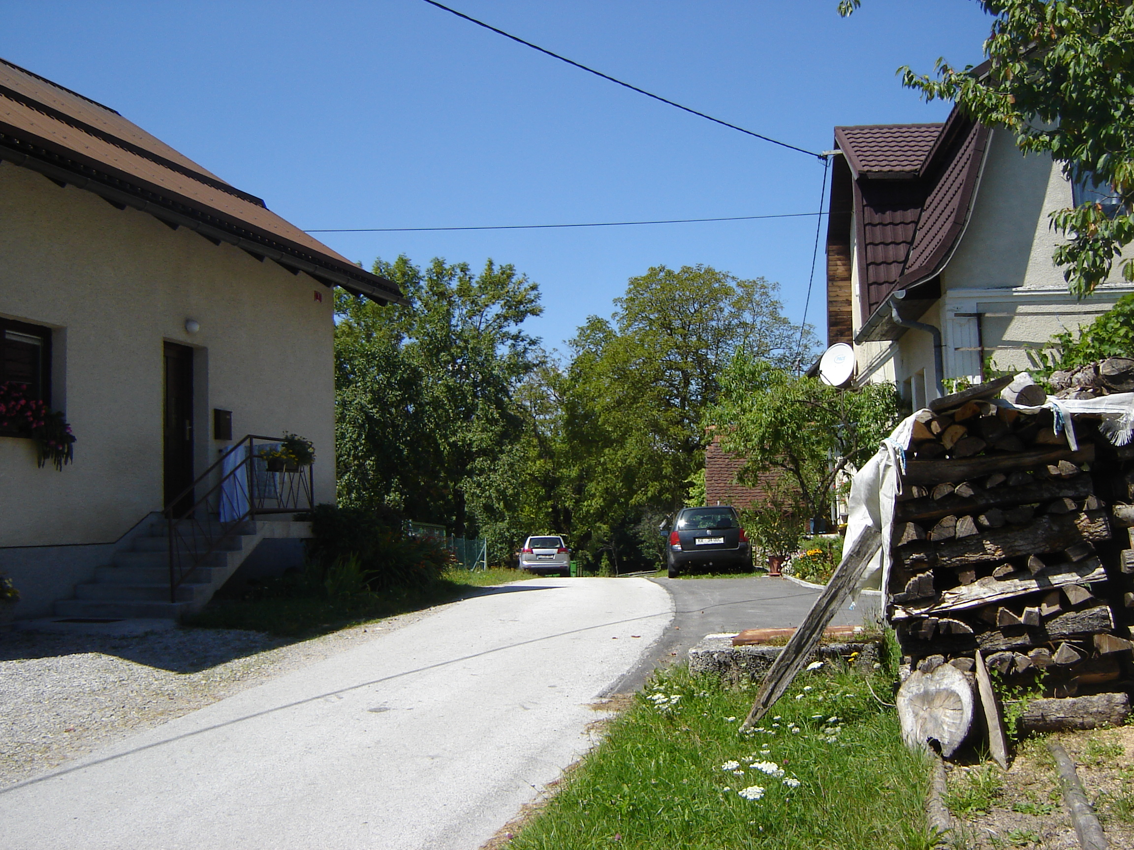 Village Ajbelj